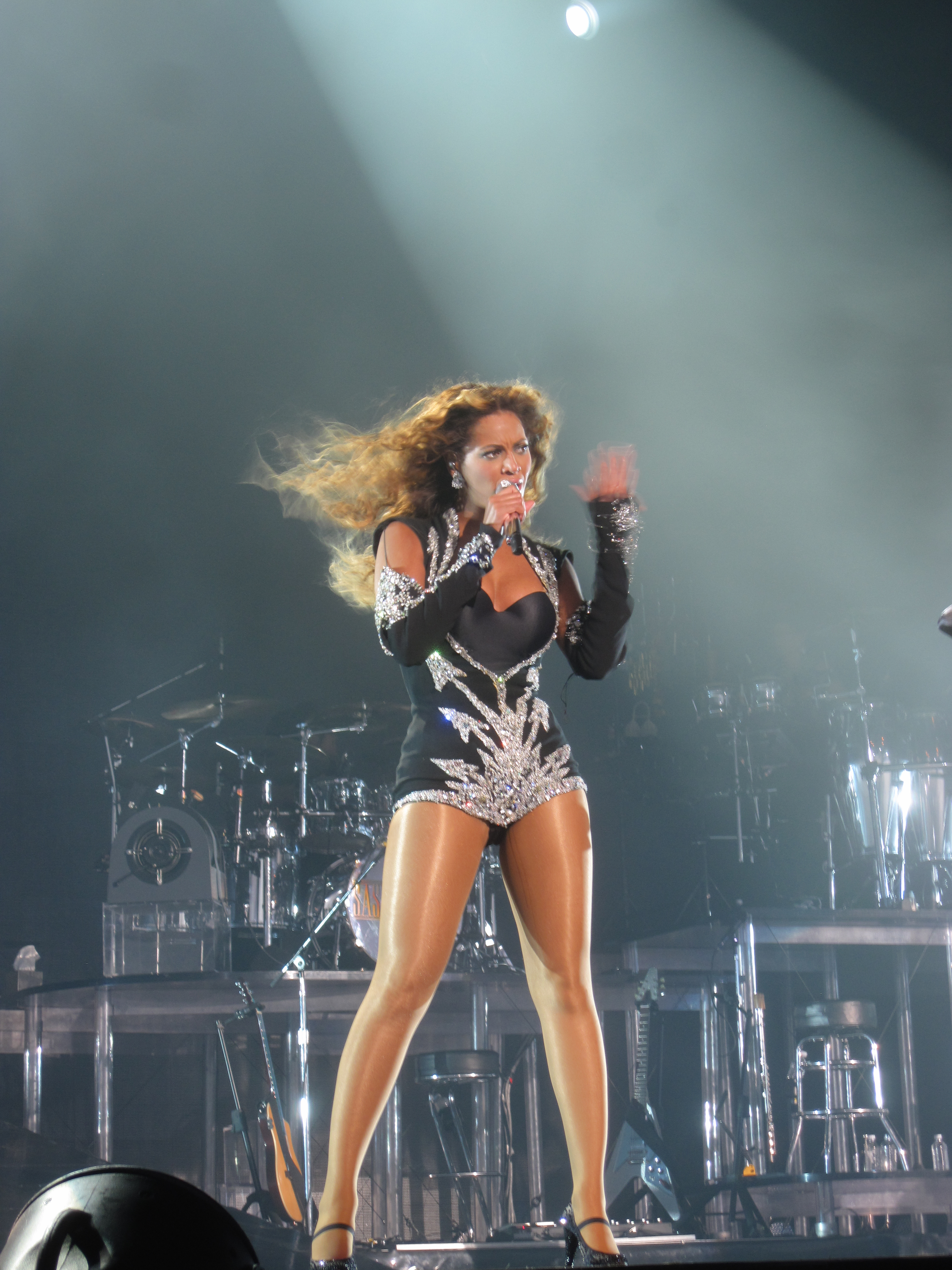 Beyoncé performing "Single Ladies (Put a Ring on It)" on The O2 Arena stage in London.